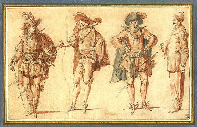 Four Commedia dell’Arte Figures. Pen and black ink, grey and red wash, 11.7 x 19 cm